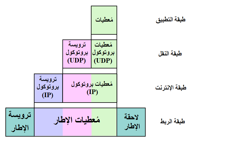 Encapsulation of application data descending through the layered IP architecture.